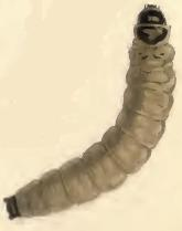 Stainton’s Natural History of the Tineina (1855–1873): Coleophora hemerobiella larva